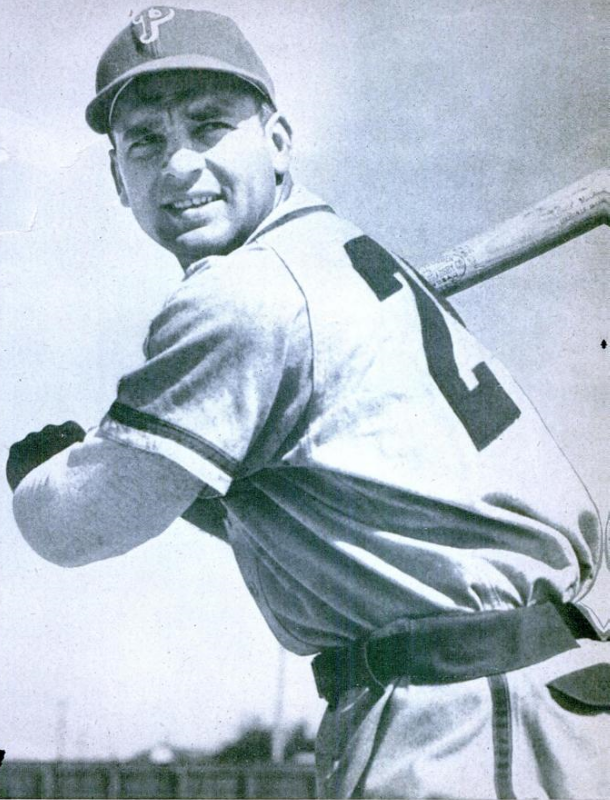 An image of Major League Baseball catcher Andy Seminick.